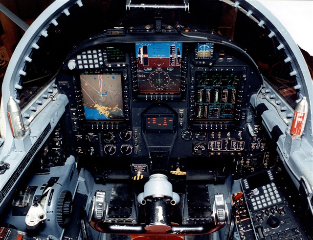 U-2S cockpit